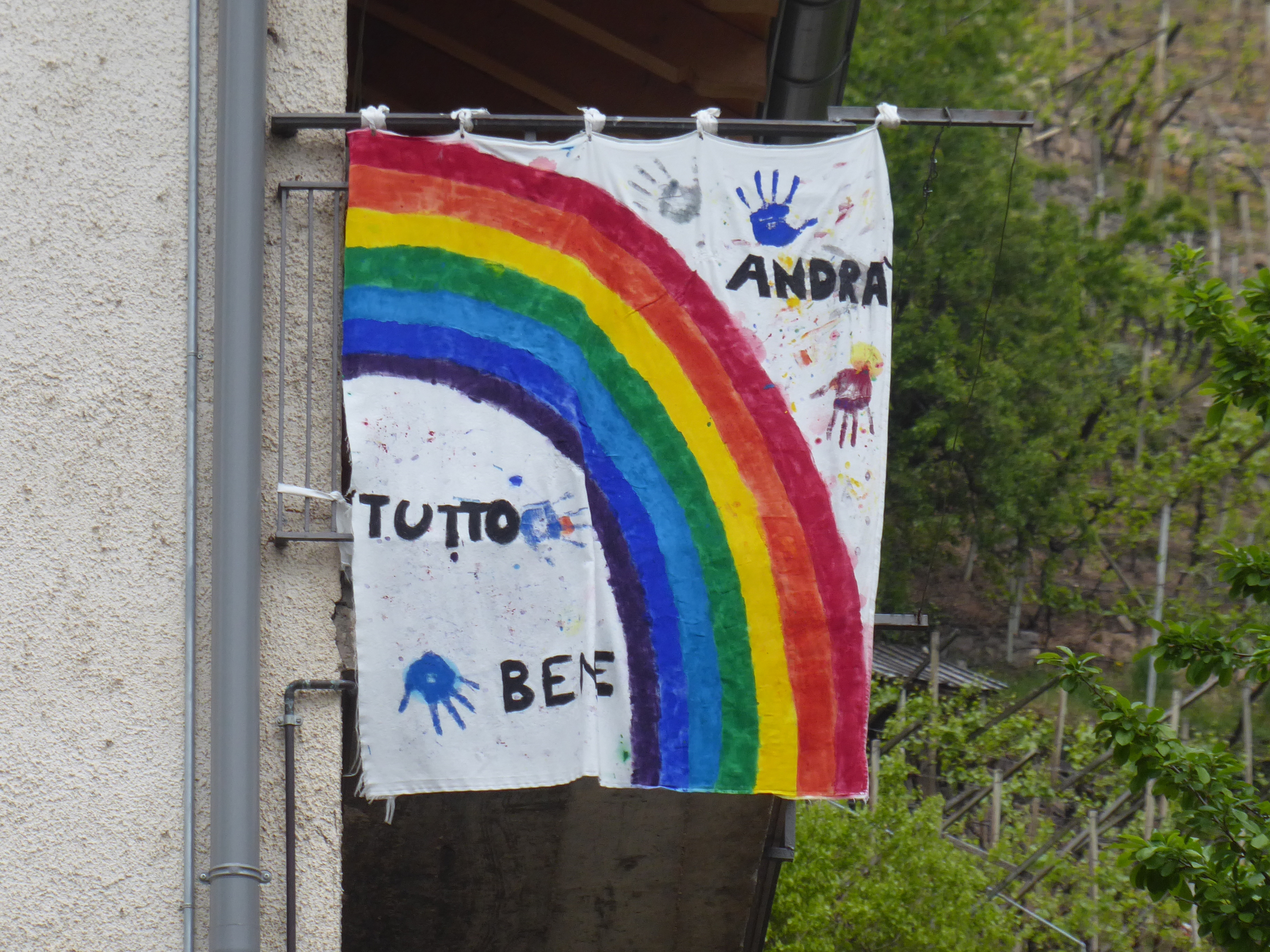 Banner saying "Andrà tutto bene" (= "Everything will be alright") for the covid-19 pandemic, in Piazzo (Segonzano, Trentino, Italy)